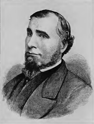 Portrait of Alexander Macdonald, Scottish trade unionist and subsequently an MP